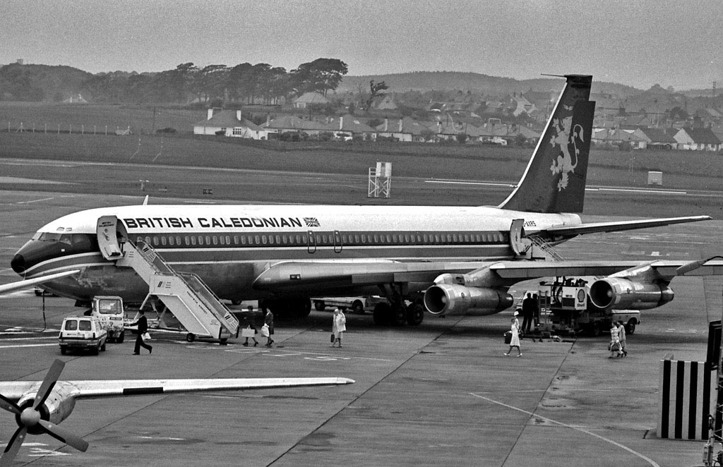 This image was taken by Martin J.Galloway. Donated from the British Photo Encyclopedia Dotonegroup : talk. British Caledonian Boeing 707, registration number G-AXRS shown at Prestwick International Airport circa 1972. This bird flew for another 26 years for various companies. Suffered engine separation during cargo flight 1998, no loss of life and was scrapped.